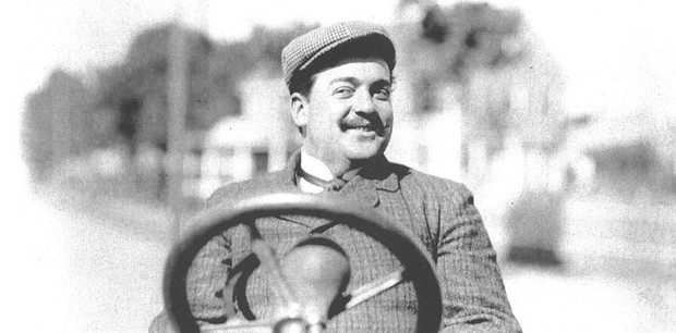 Italian racing driver Vincenzo Lancia at the 1905 Vanderbilt Cup Race. He was Fiats testdriver until he started the Lancia carmake in 1906.[1]